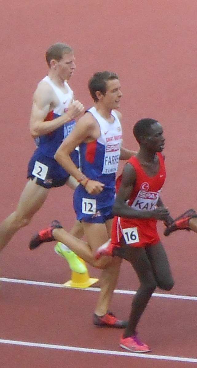 Andy Vernon, Tom Farrell, and Ali Kaya competing at the 2014 European Athletics Championships